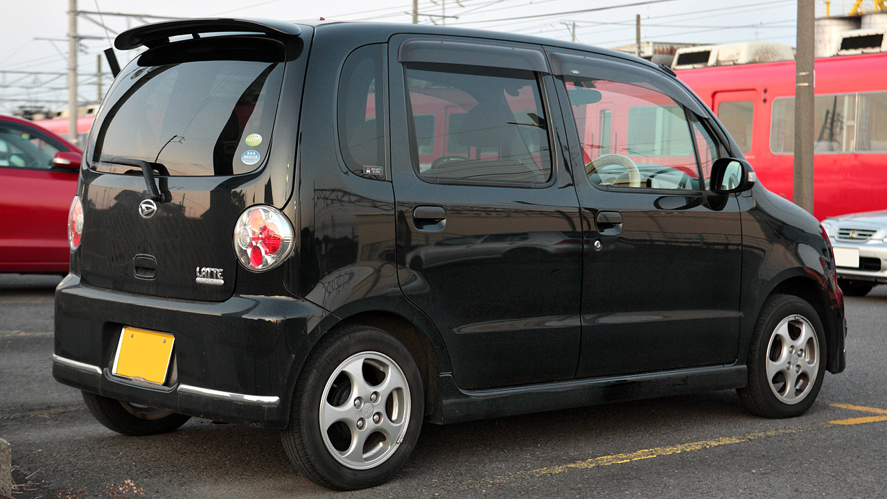 Daihatsu Move Latte Cool VS ( L550S )